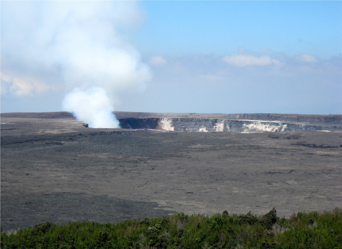 Dramatic view of the Kilauea volcano from the Volcan House Hotel